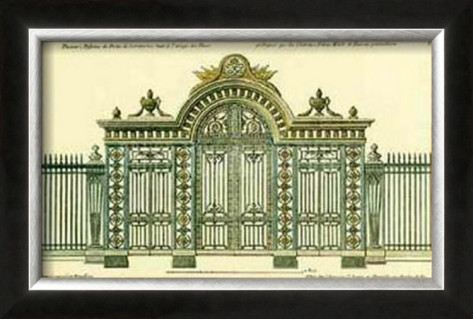 Palace Gate by Jean-Francois de Neufforge, (1 April 1714 – 19 December 1791), a Flemish architect and engraver, known for his Recueil elementaire d'architecture, a book of architectural engravings.